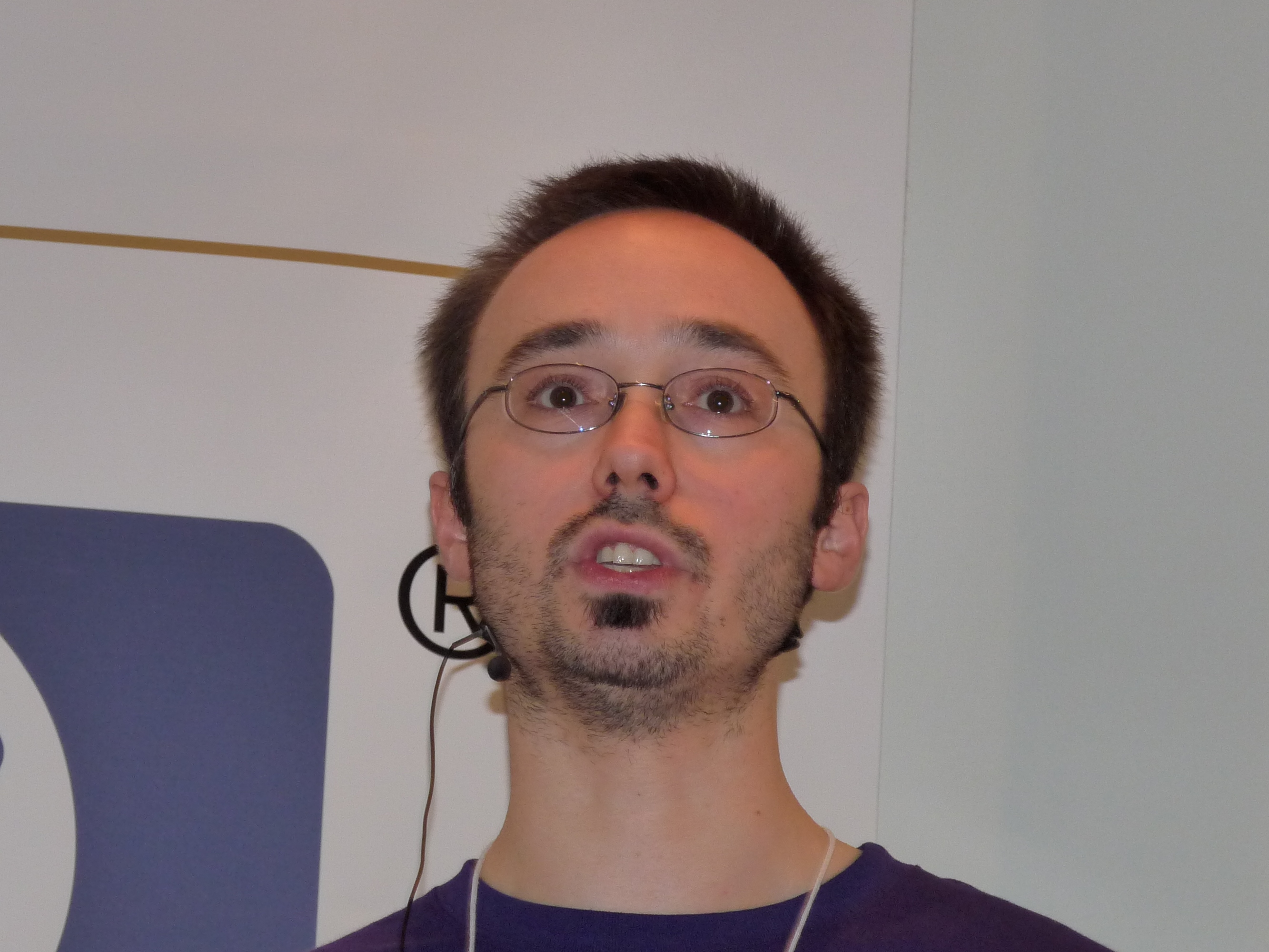 Stefano Zacchiroli speaking at the DebConf10 conference